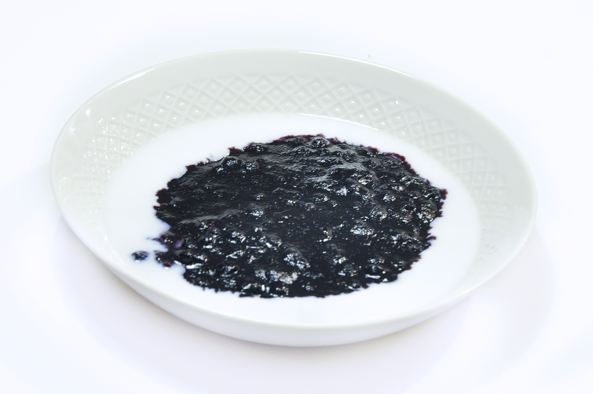 Porridge made by blueberry